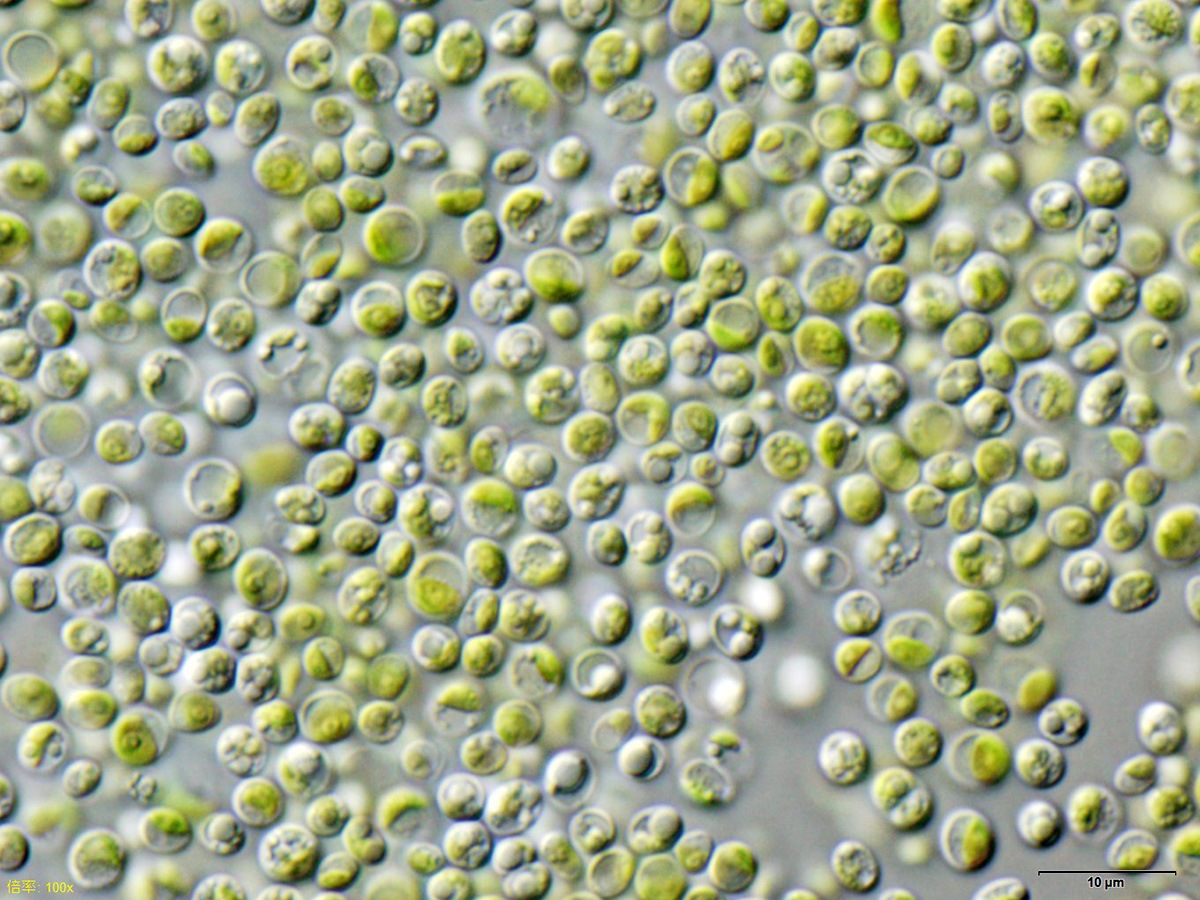 Chlorella vulgaris Beijerinck NIES-2170 / Olympus IX71+DP72